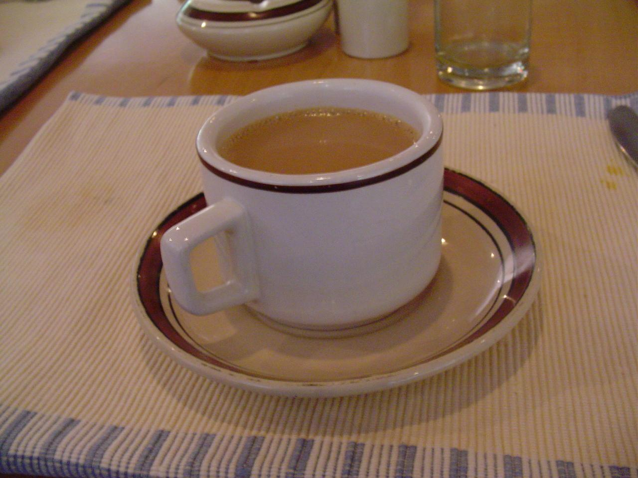 A cup of masala chai